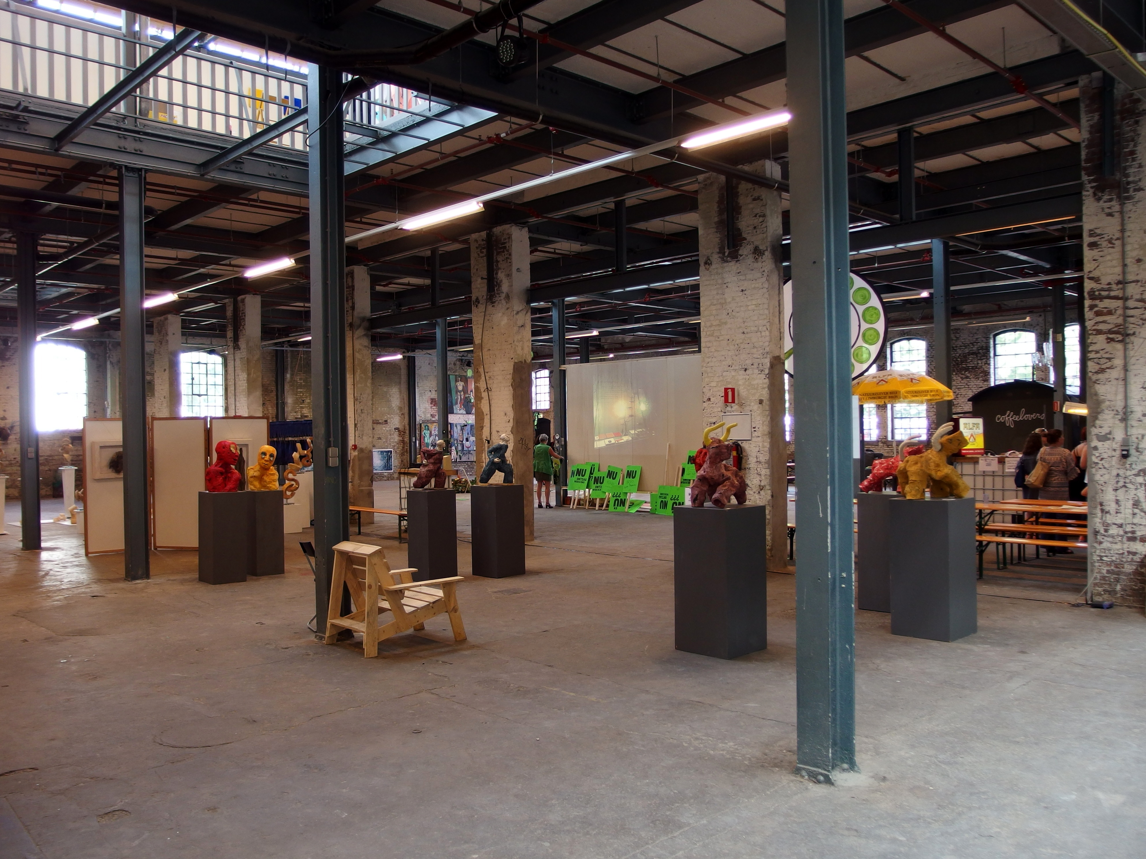 20140525 in Maastricht; Timmerfabriek.